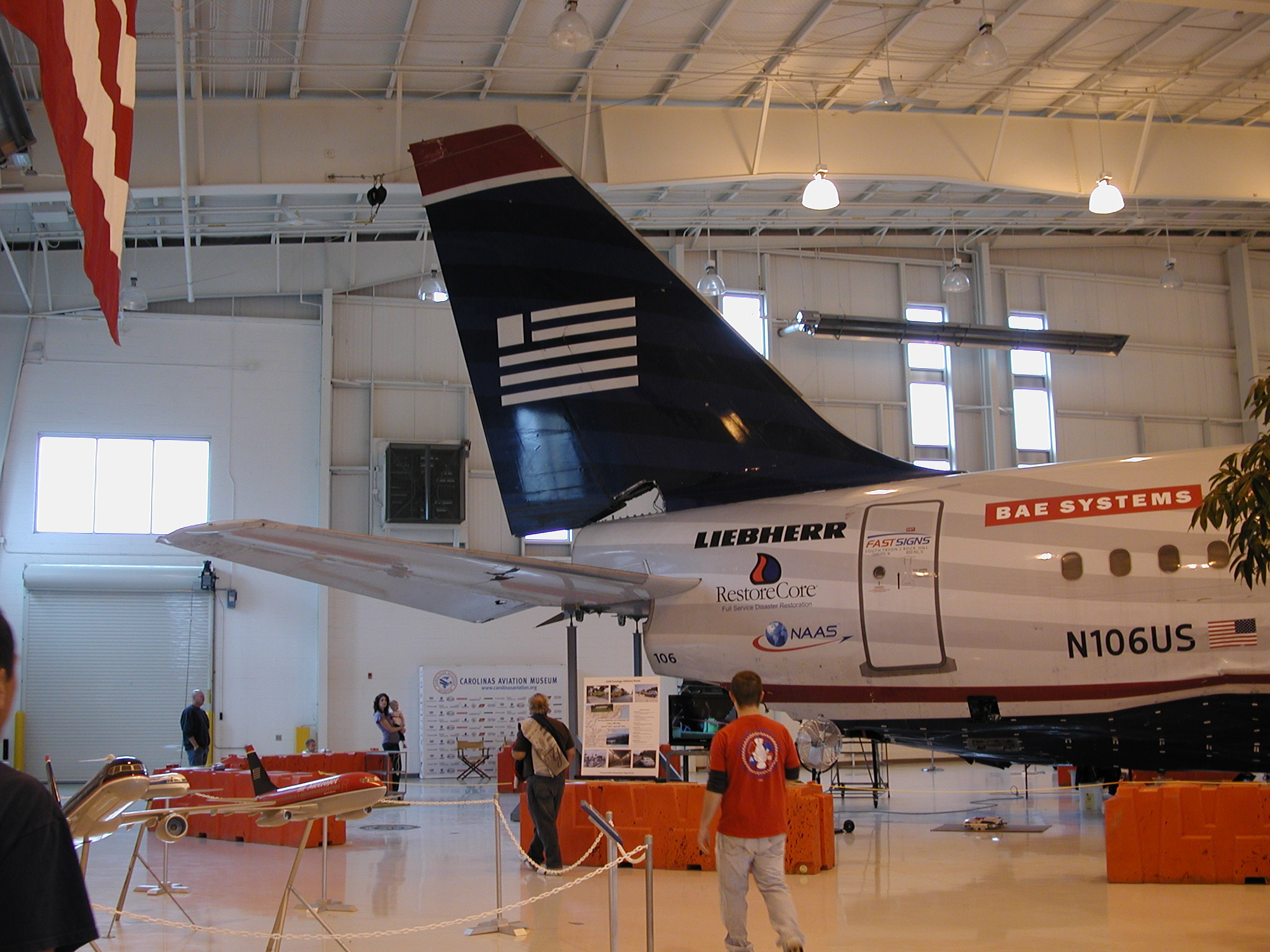 1549 with the tail reattached. Carolinas Aviation Museum, Charlotte Douglas International Airport, Charlotte, North Carolina